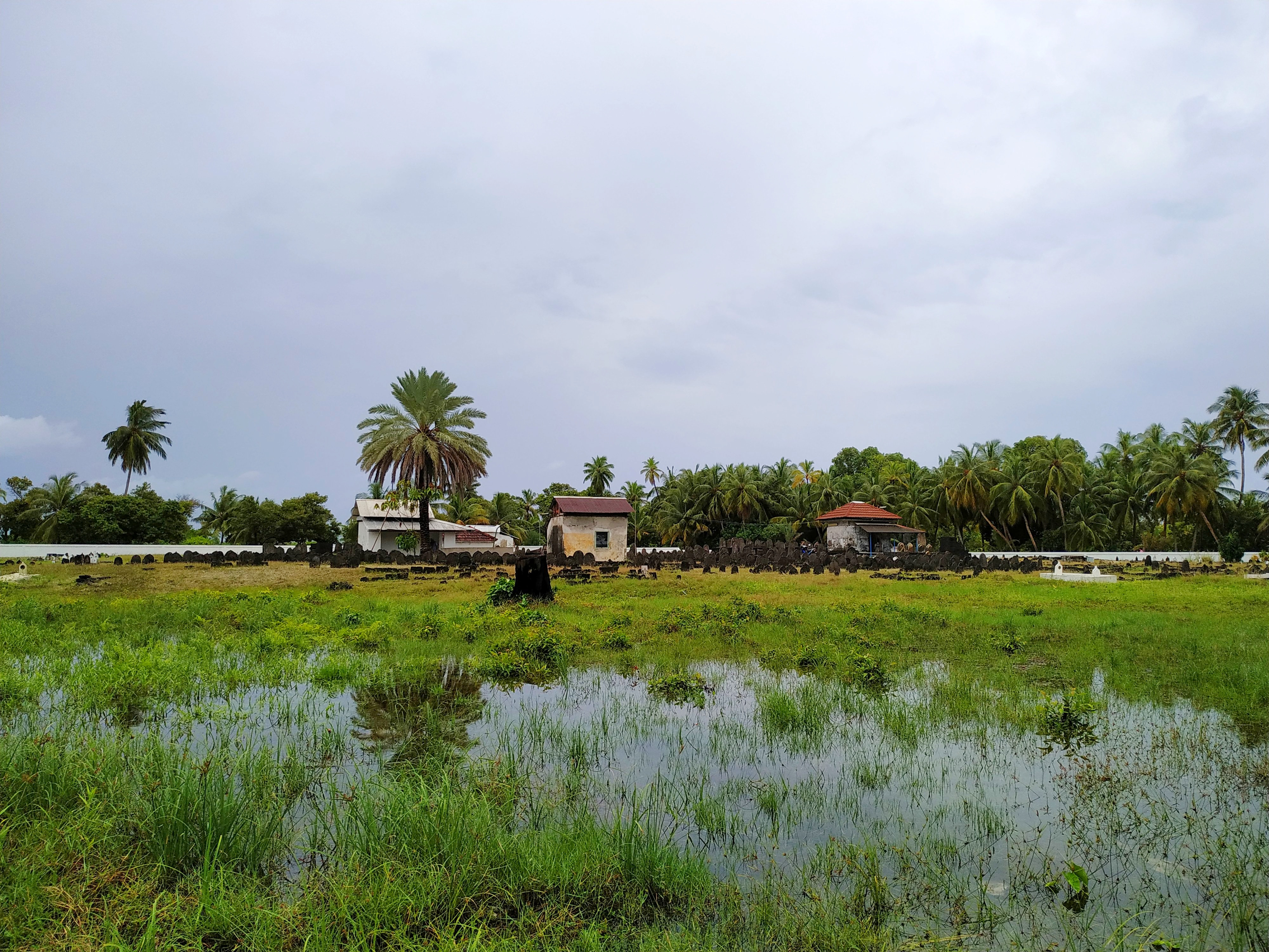 Kogannu Cemetery in Hulhumeedhoo, Maldives during monsoon season. June 2019